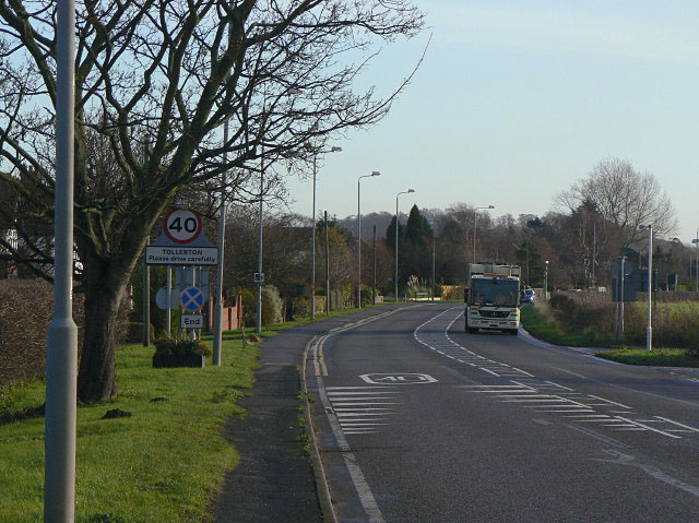 A606 at Tollerton The main road from Nottingham to Melton Mowbray and the A46 skirts the edge of the village.